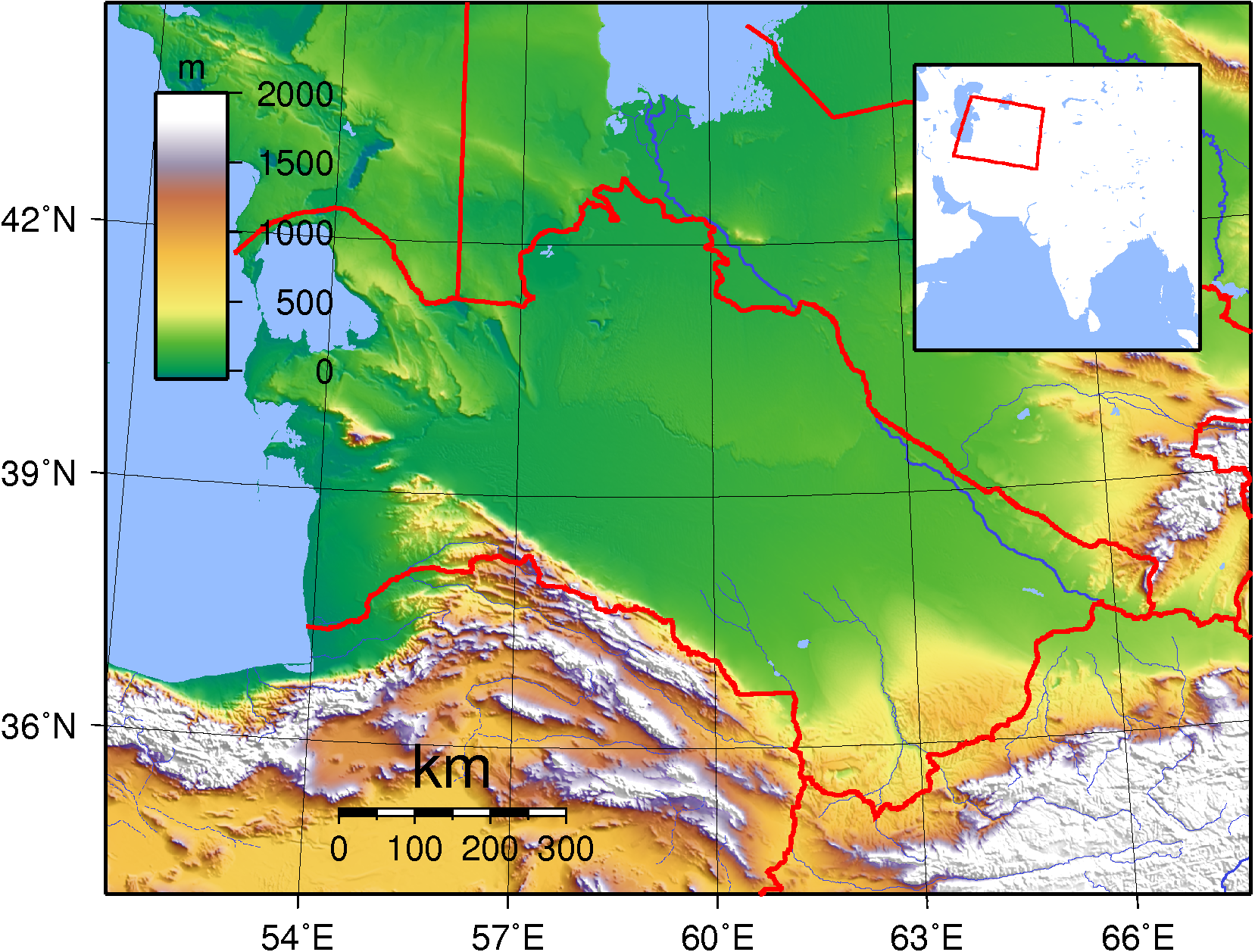 Topographic map of Turkmenistan. Created with GMT from SRTM data.